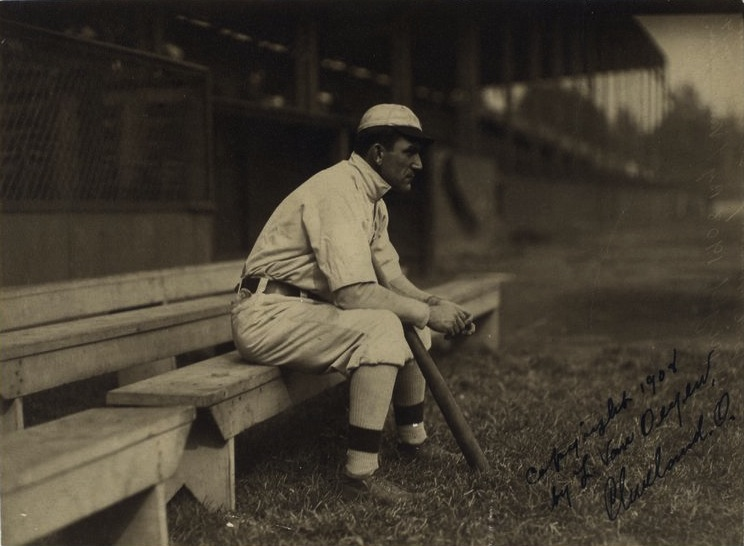 Hall of Fame baseball player Nap Lajoie sitting in the dugout with bat. Photo ourtesy of the The A. G. Spalding Baseball Collection, New York Public Library.